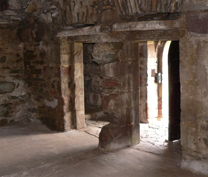 Cardoness Castle, Dumfries and Galloway, Scotland - doorways to ground floor cellars